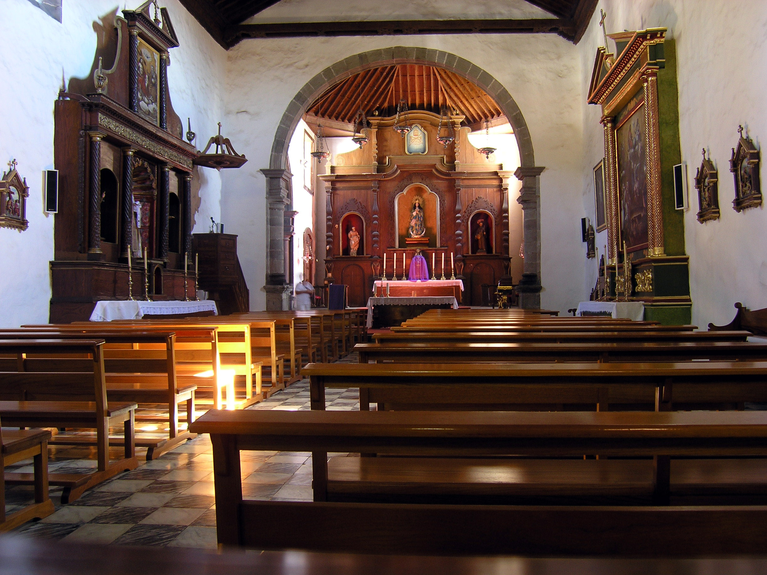 Vilaflor on Tenerife, Church of St.Peter/San Pedro, inside